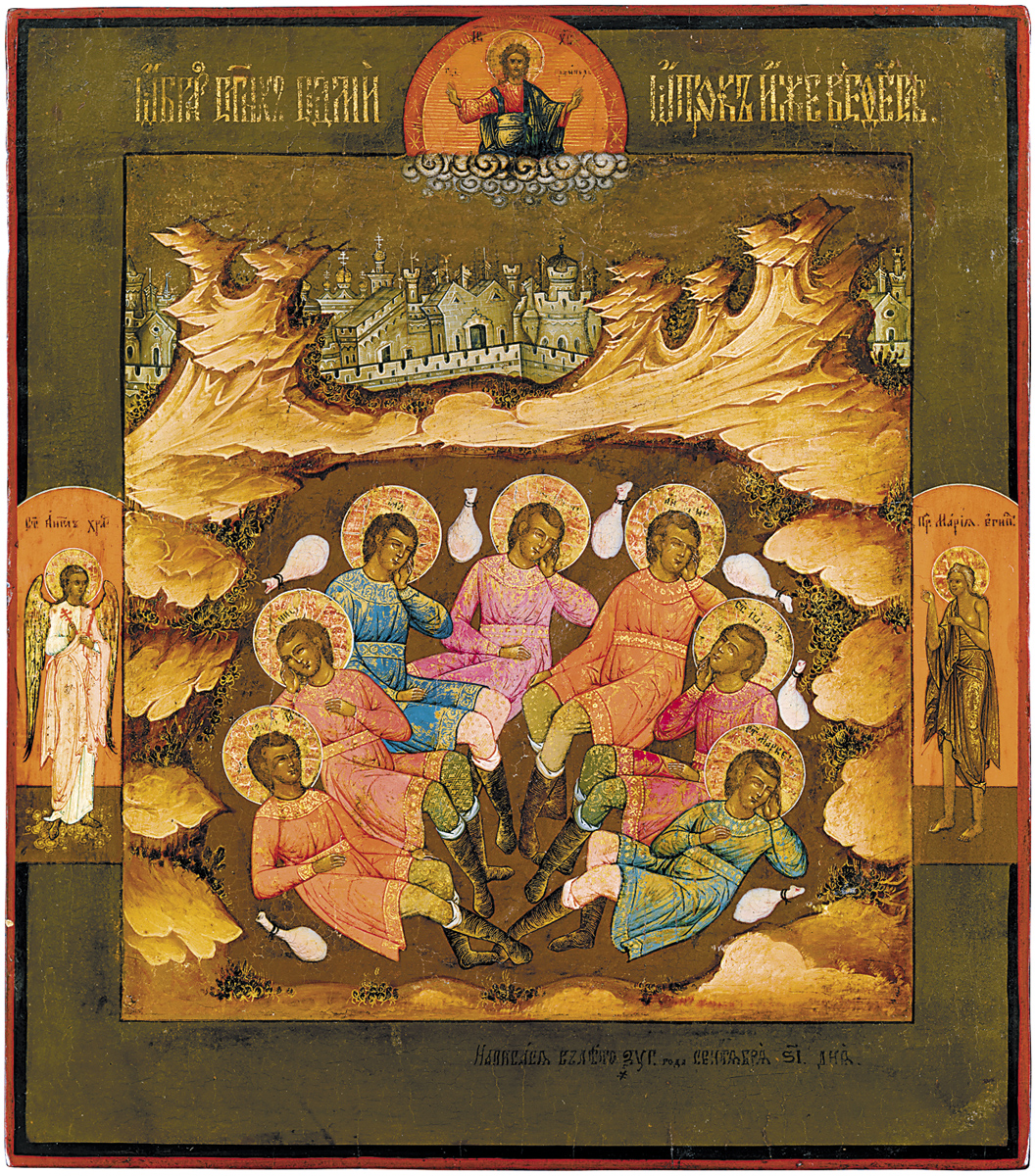 MacDougall's Fine Art Auctions